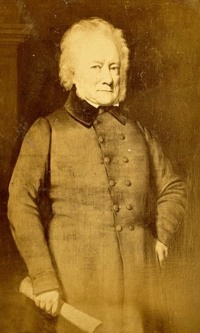 John Borthwik Gilchrist